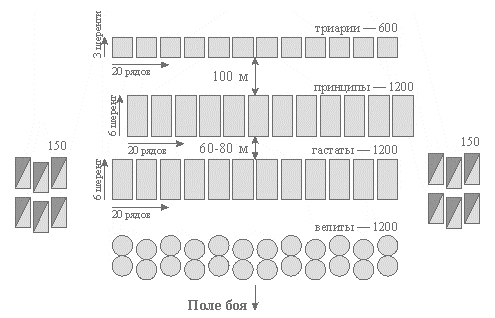 Roman Legion Structure